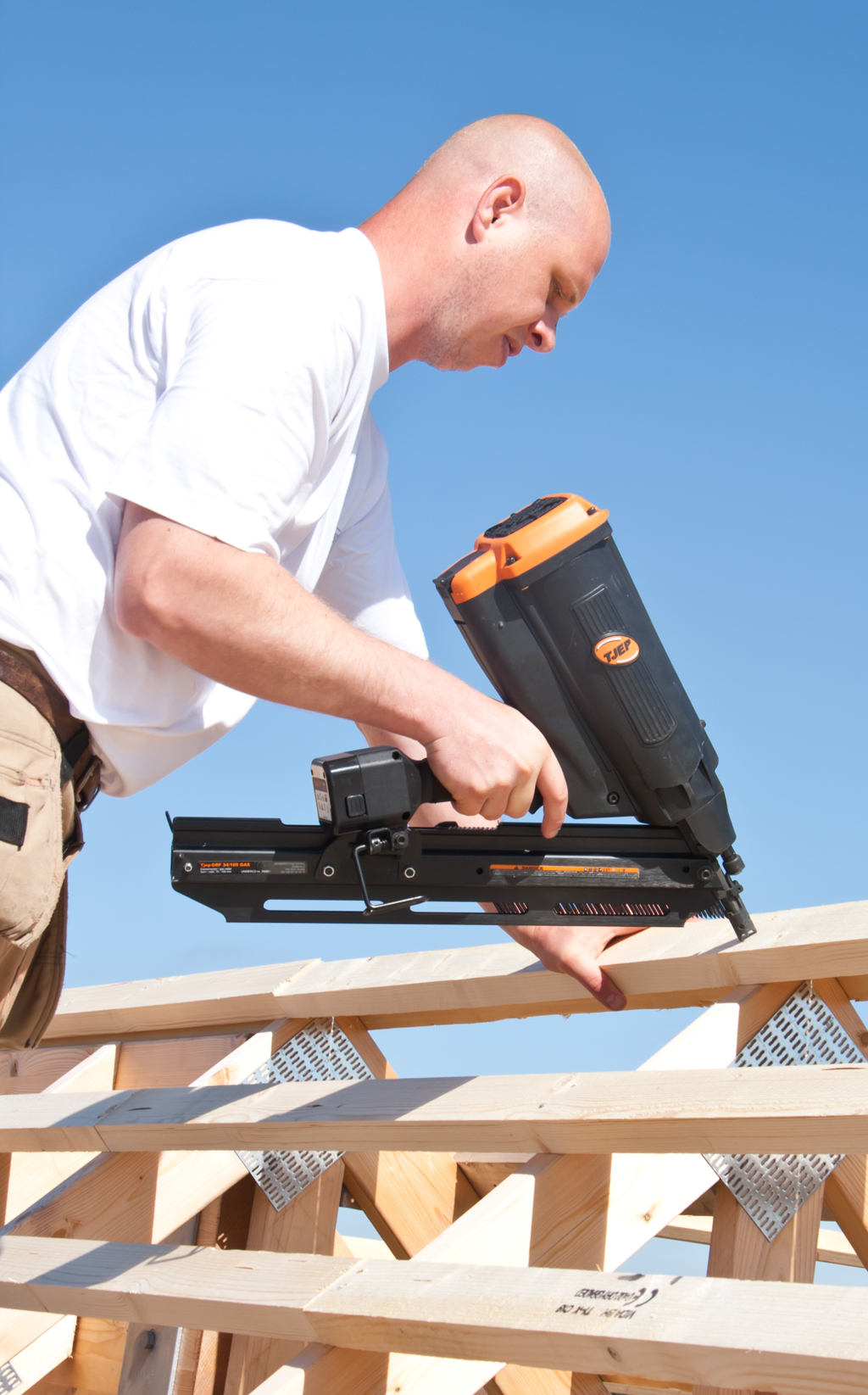 Raftering with TJEP GRF 34/105 GAS